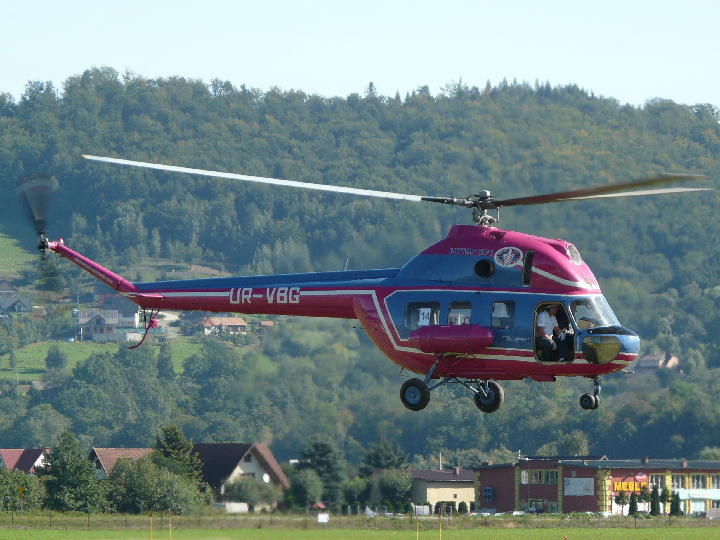 Mi-2MSB, Helicopter World Cup 2019, Musilenko Vladyslav, Sokolov Igor